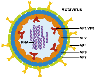 A rotavirus is a wheel-shaped virus that gets its name from its complex shape. Its genome consists of 11 double-stranded RNA segments that generate six structural proteins (VP1, VP2, VP3, VP4, VP6 & VP7) and six nonstructural proteins (NSP1-6). Each virus particle is surrounded by a triple layer coat. Credit: NIAID